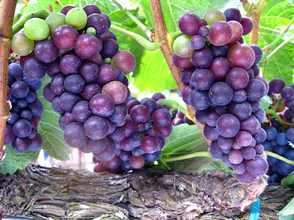 Pinot Noir grapes ripening at Martaella Vineyards located at Benovia Winery in Santa Rosa, California.